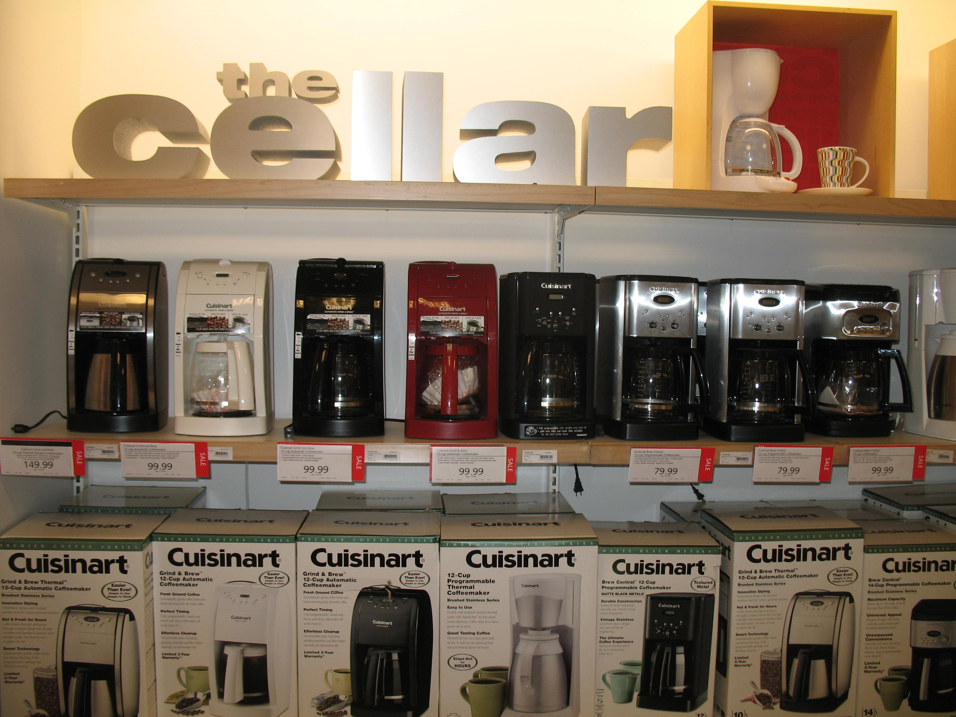 the cellar at Marshall Fields Flagship